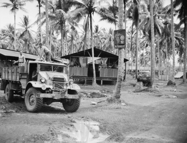 Milne Bay Sub Area, New Guinea. 1944-02-09. The recreation hut at the Reception and General Details Depot.